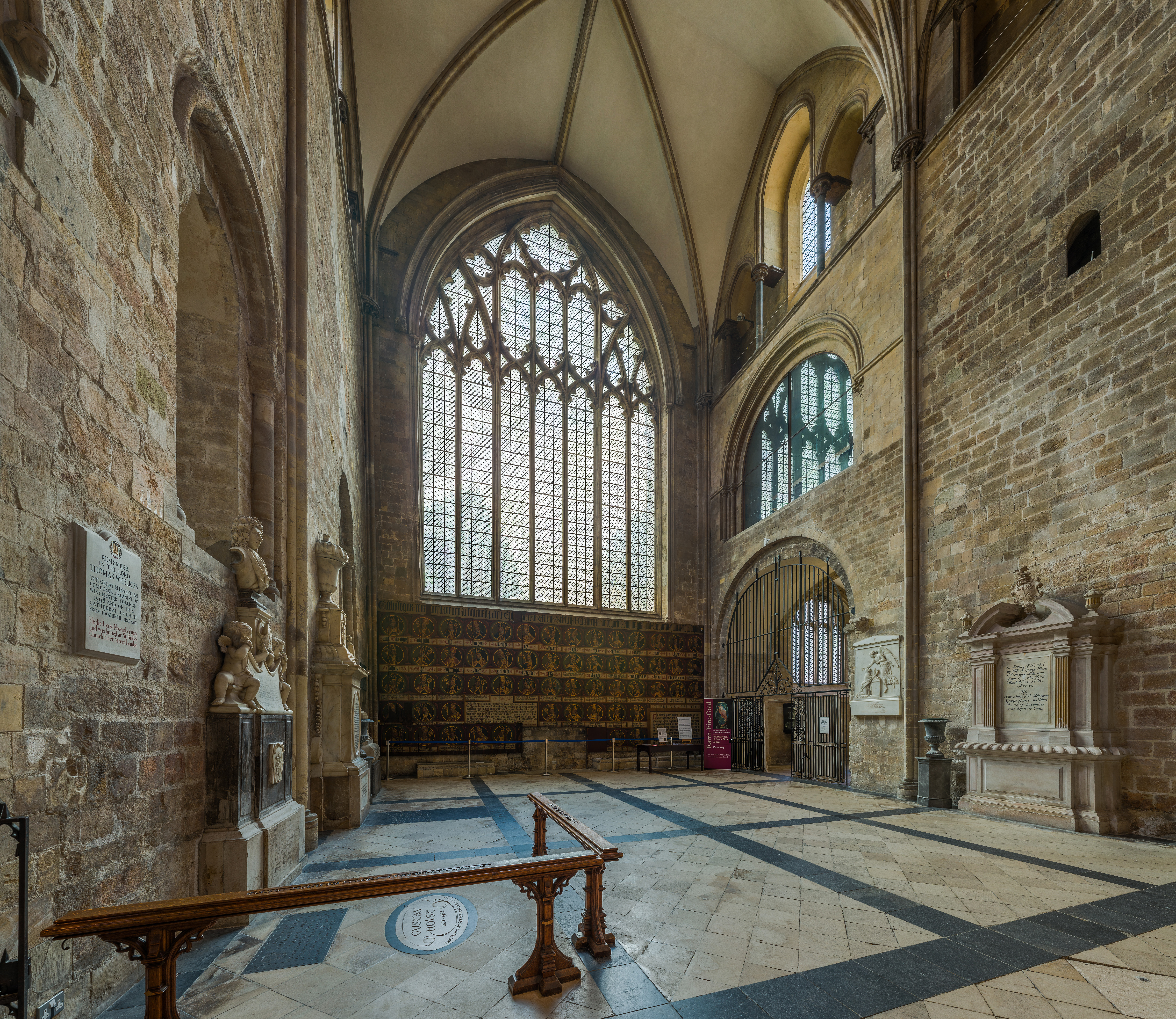 The north transept of Chichester Cathedral in West Sussex, England.